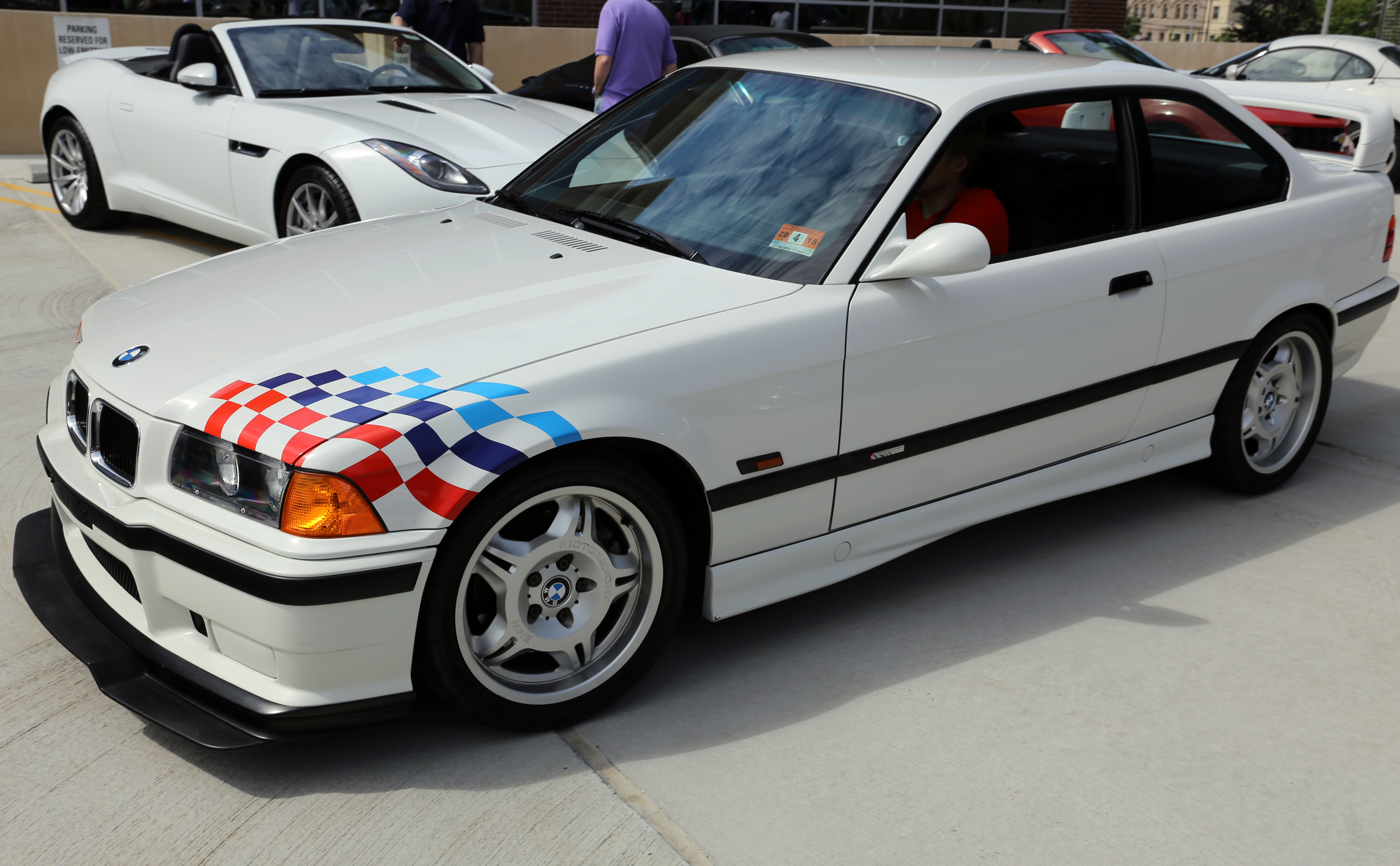 1995 BMW M3 Lightweight. This model was only sold in the US, and only in the 1995 model year.